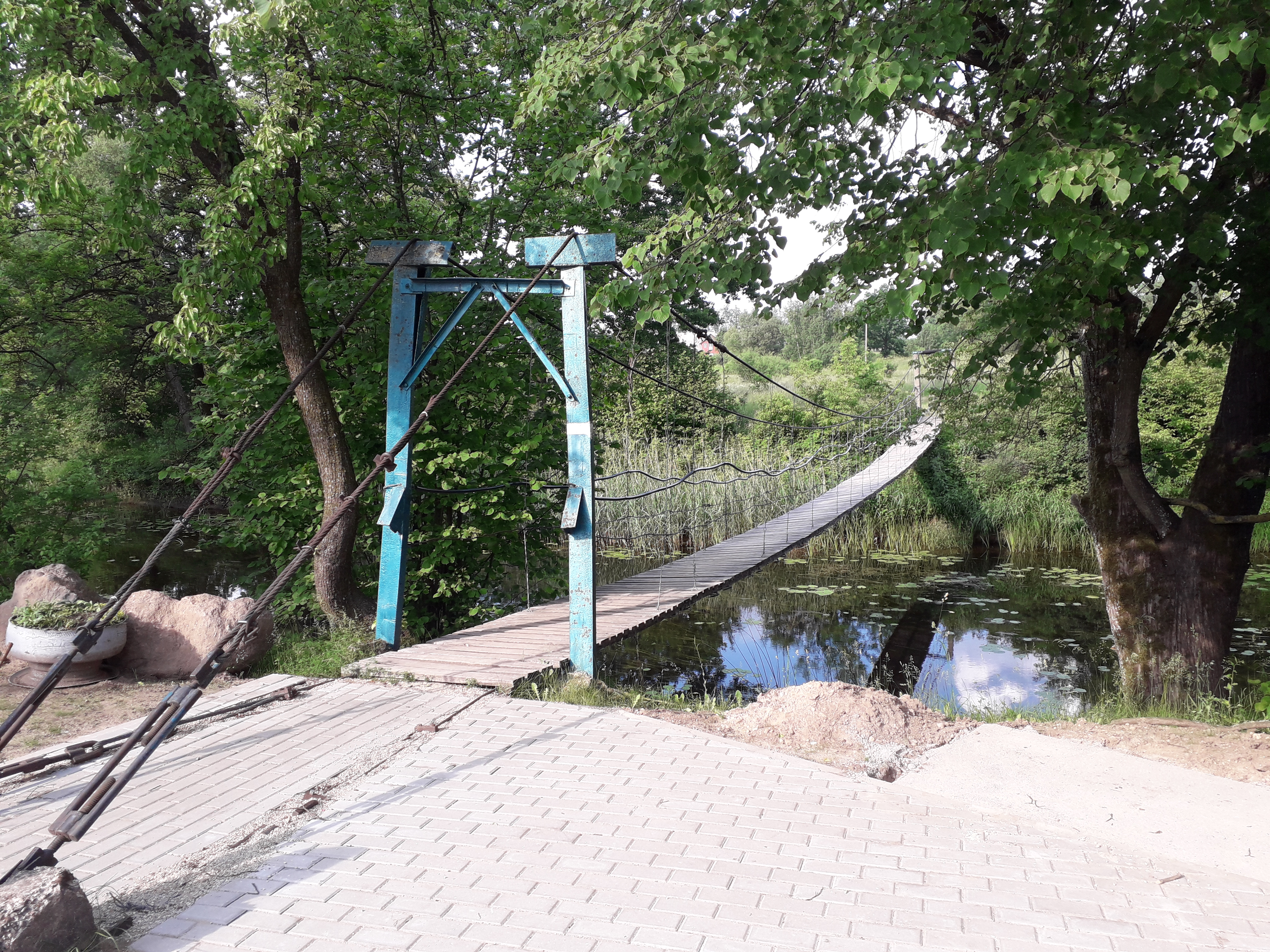 Suspension bridge in Piniava, Panevėžys District, Lithuania